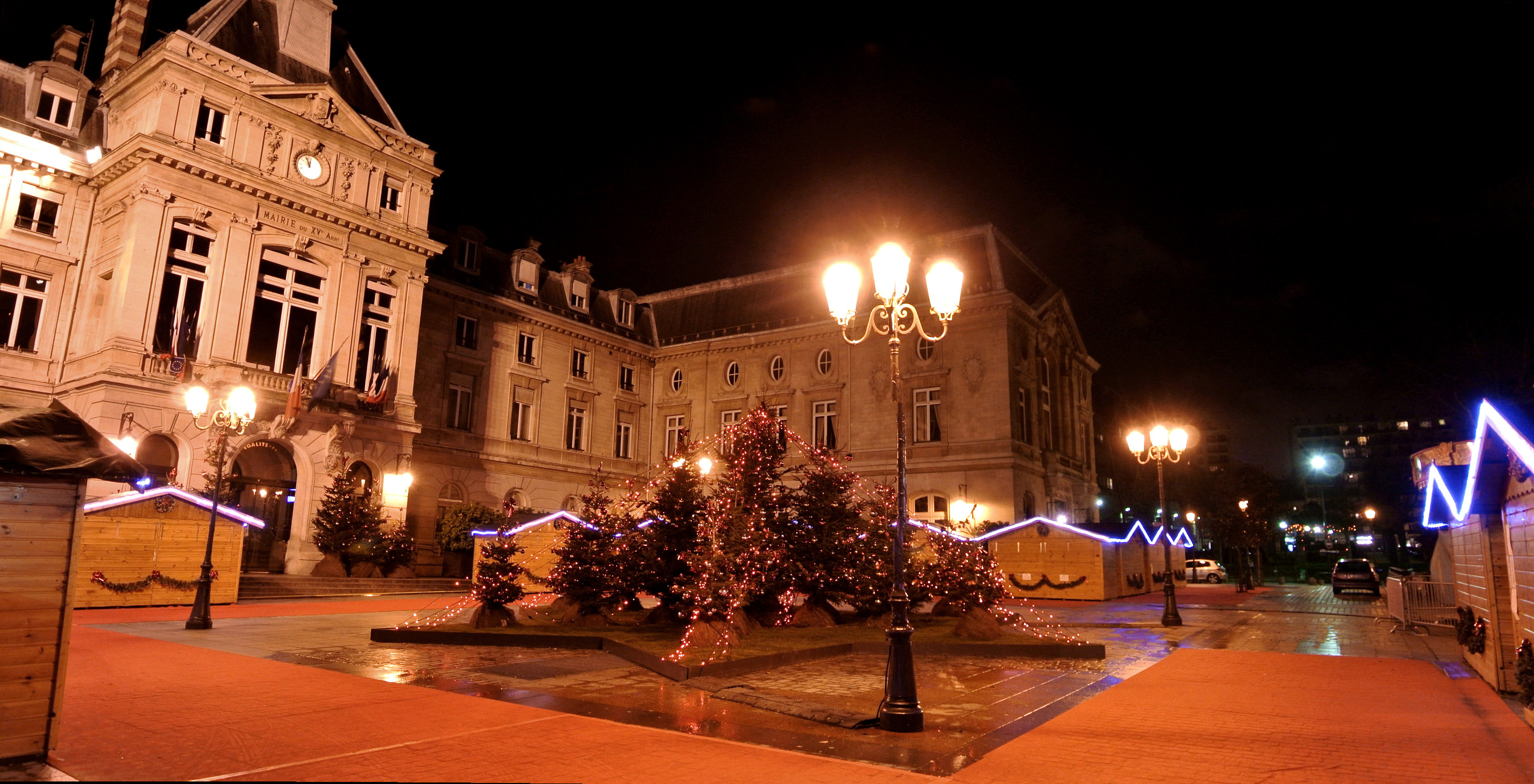 Town hall of Paris XVe arrondissement at Christmas 2012